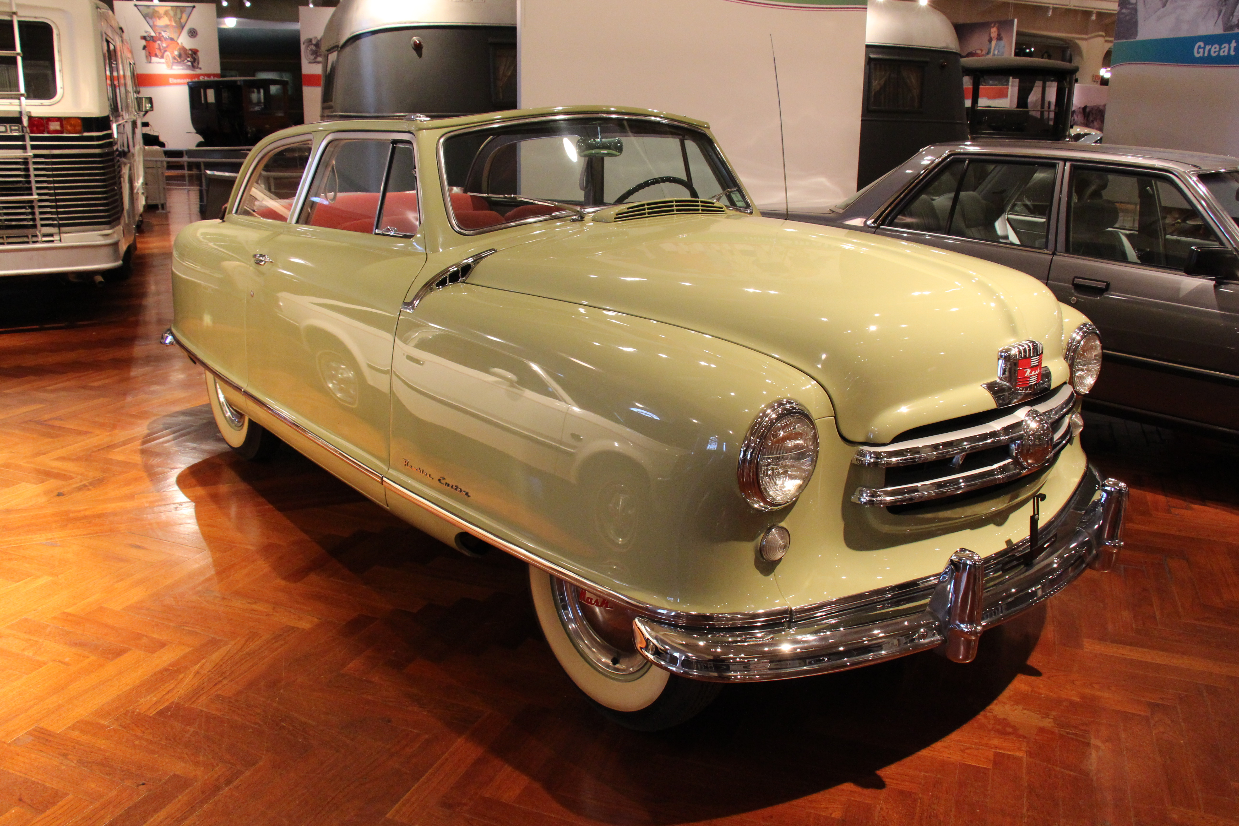 In the 50s big cars ruled, even the cheaper Plymouths, Chevrolets and Fords were a good size. The Nash Rambler was one of the few small cars available in the US at the time. The 1950-55 Nash Rambler was the first model run for this automobile platform. In 1954, Nash-Kelvinator merged with the Hudson Motor Car Company to form American Motors Corporation (AMC) Using the same tooling, AMC reintroduced an almost identical new 1958 Rambler American for a second model run. For 1950 only the convertible was available, in 1951, the 2ddor station wagon and 2 door hardtop were introduced. 4 door cars available in 1954. Engine; 173 cu in 6 cyl Photograph taken at the Henry Ford Museum, Dearborn